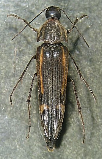 adult Ctenoplectron vittatum